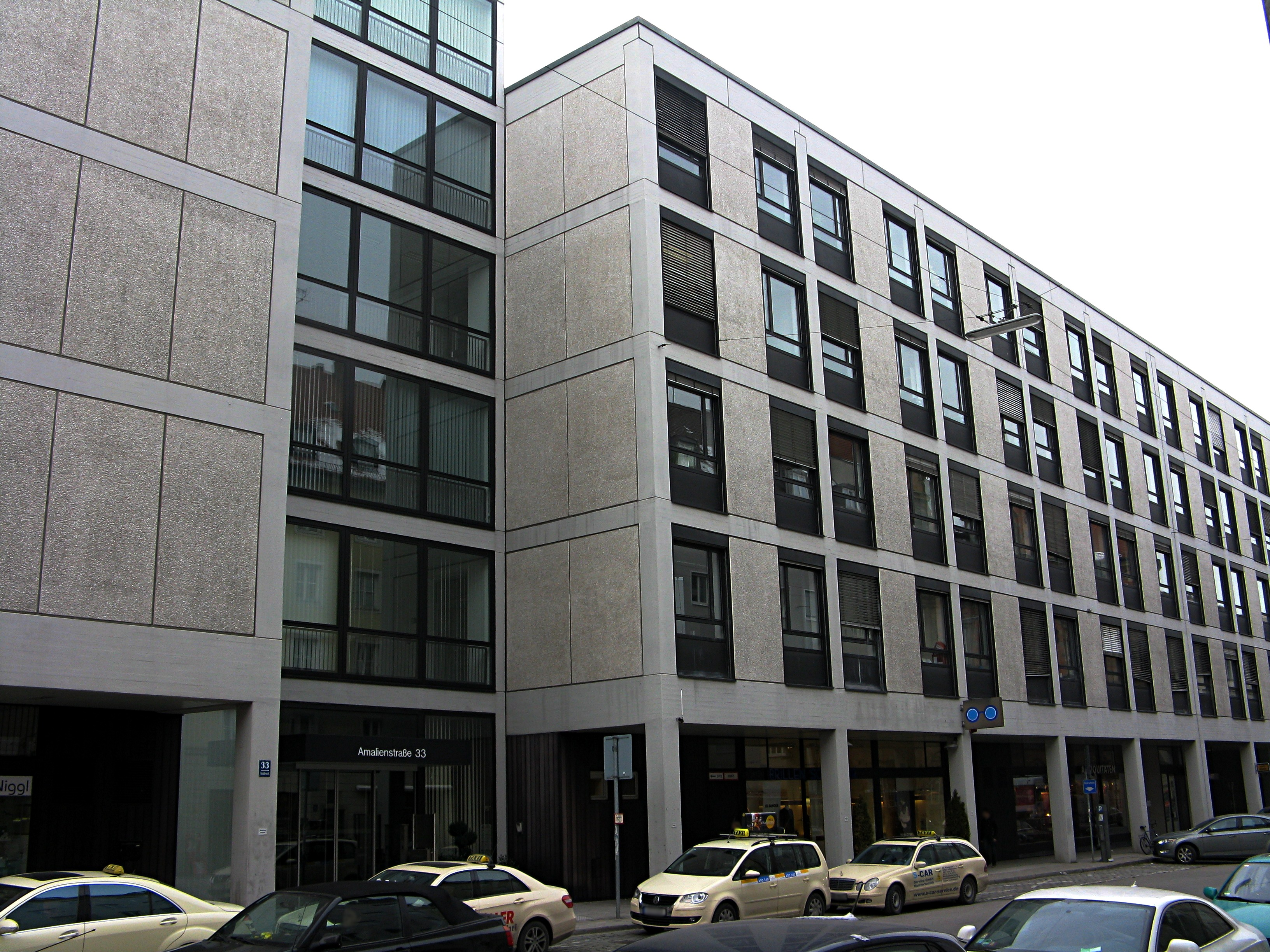 The building in which the "Max-Planck-Institut für ausländisches und internationales Sozialrecht", the "Max-Planck Digital Libary" and "Max-Planck Innovations" are located in: Amalienstraße 33, München